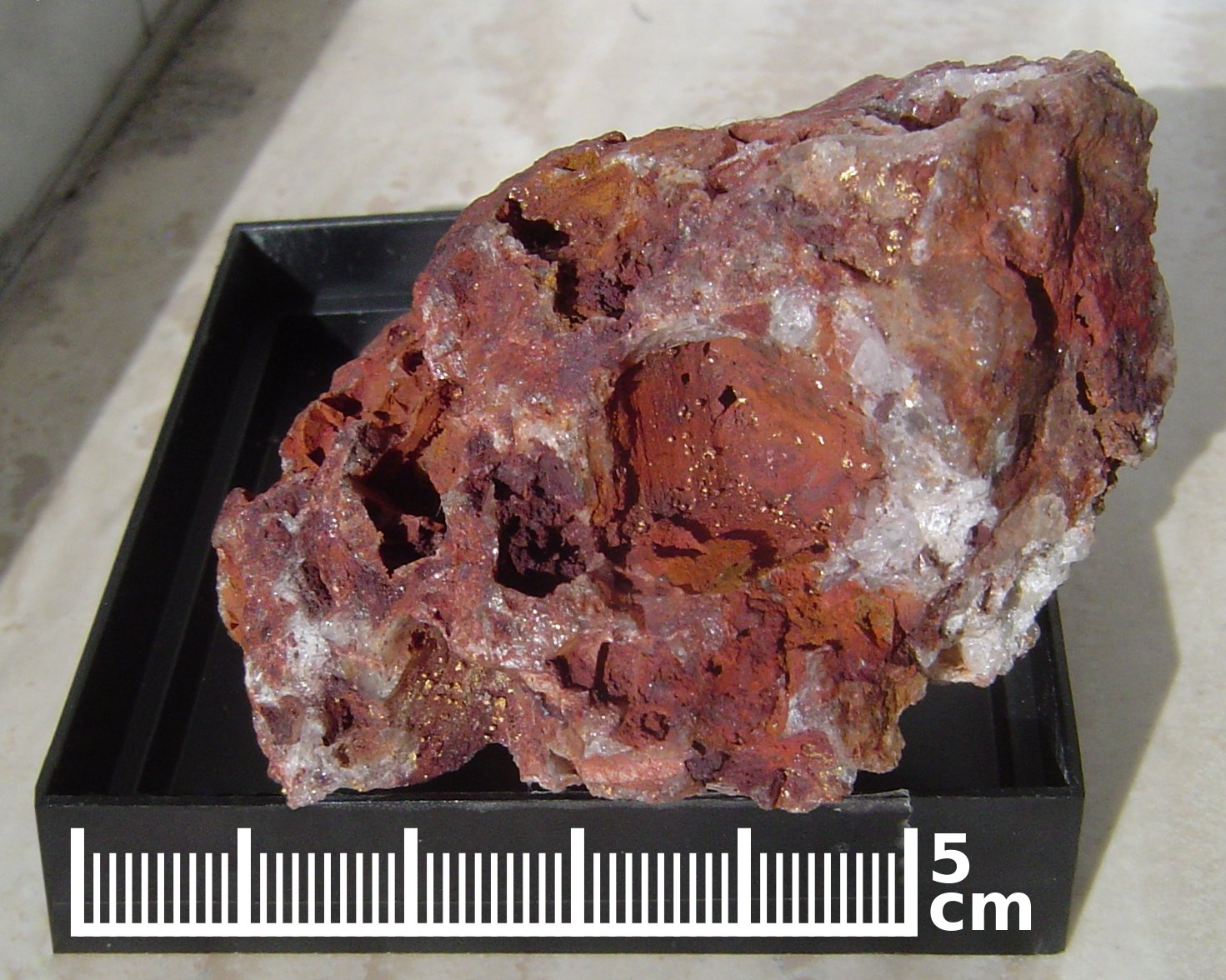 Disseminated gold, left behind after a cubic crystal of pyrite dissolved away. Note "corner" of former cube in center of rock, with small gold pieces lining the sides of the corner.